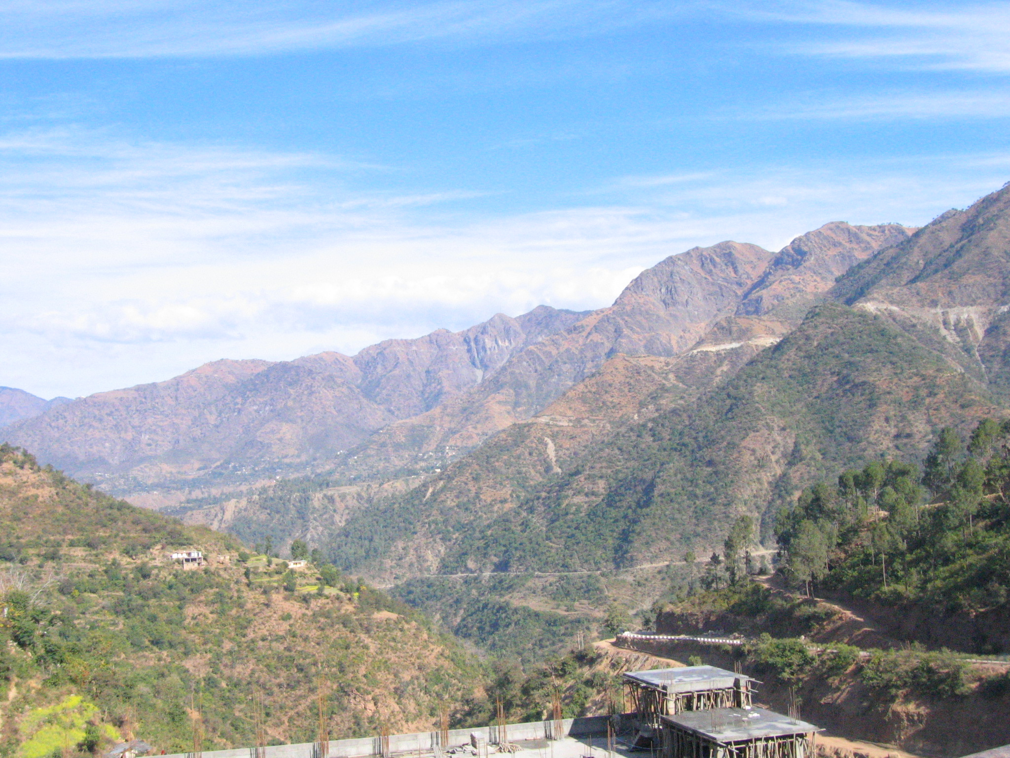 Hills surrounding Baru Sahib.